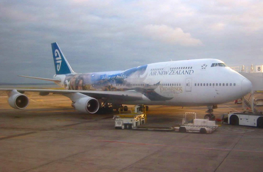 The scale of global tourism is such that even niche travel can generate large flows of people with money to spend. Usable with attribution and link to